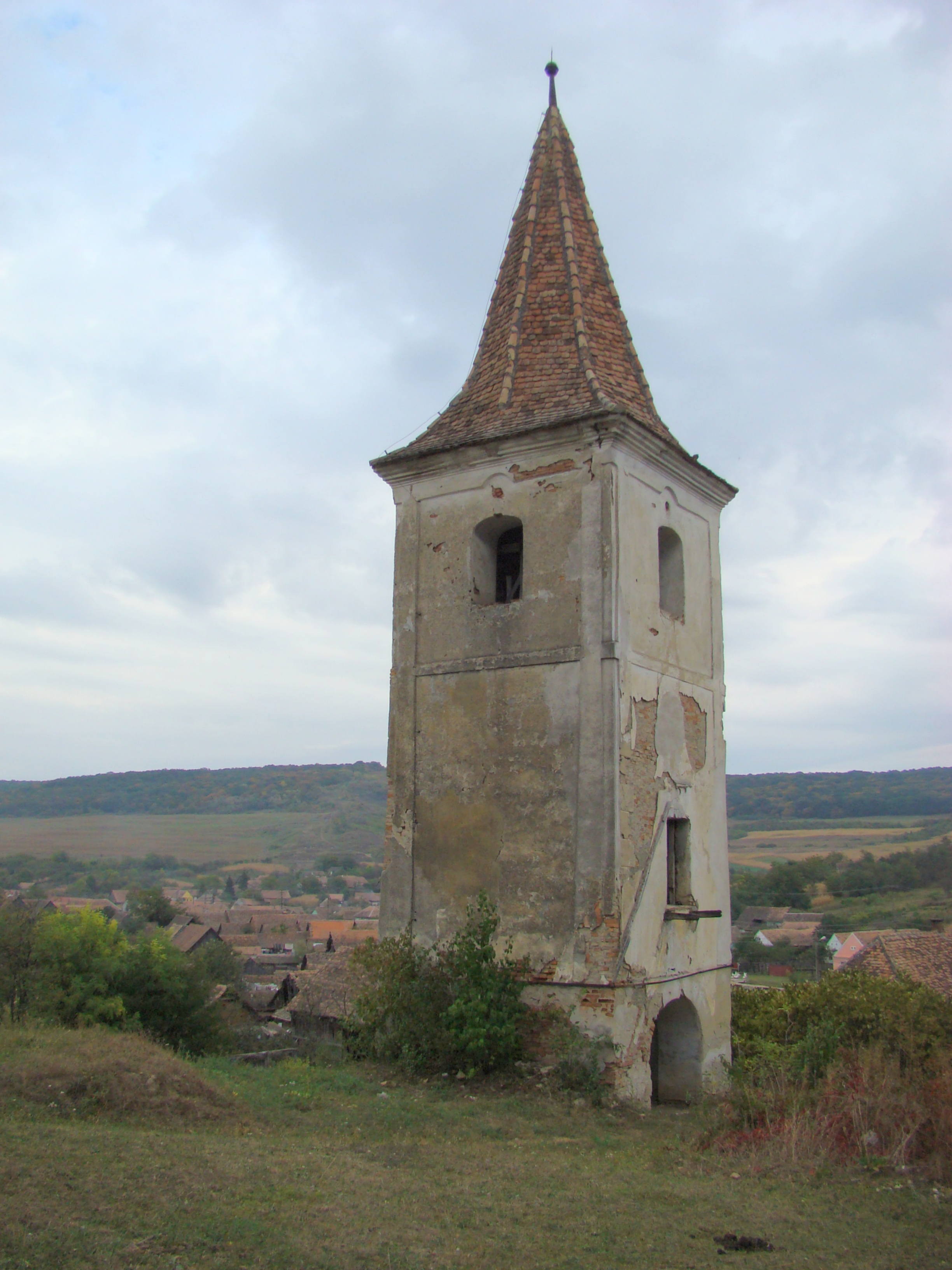 Evangelical Lutheran Church in Veseuș, Alba county, Romania 02